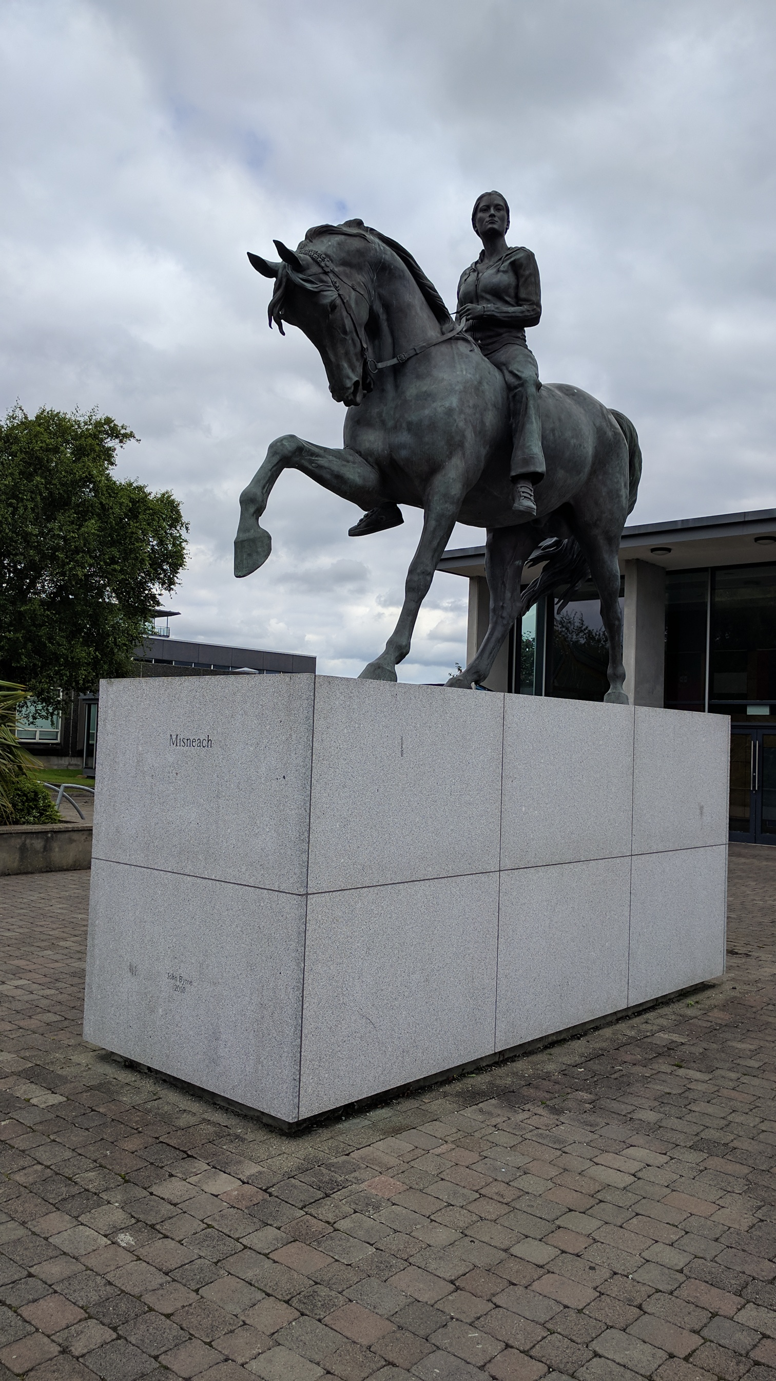 Misneach Statue, a women on horseback, located in Ballymun, Dublin, Ireland.